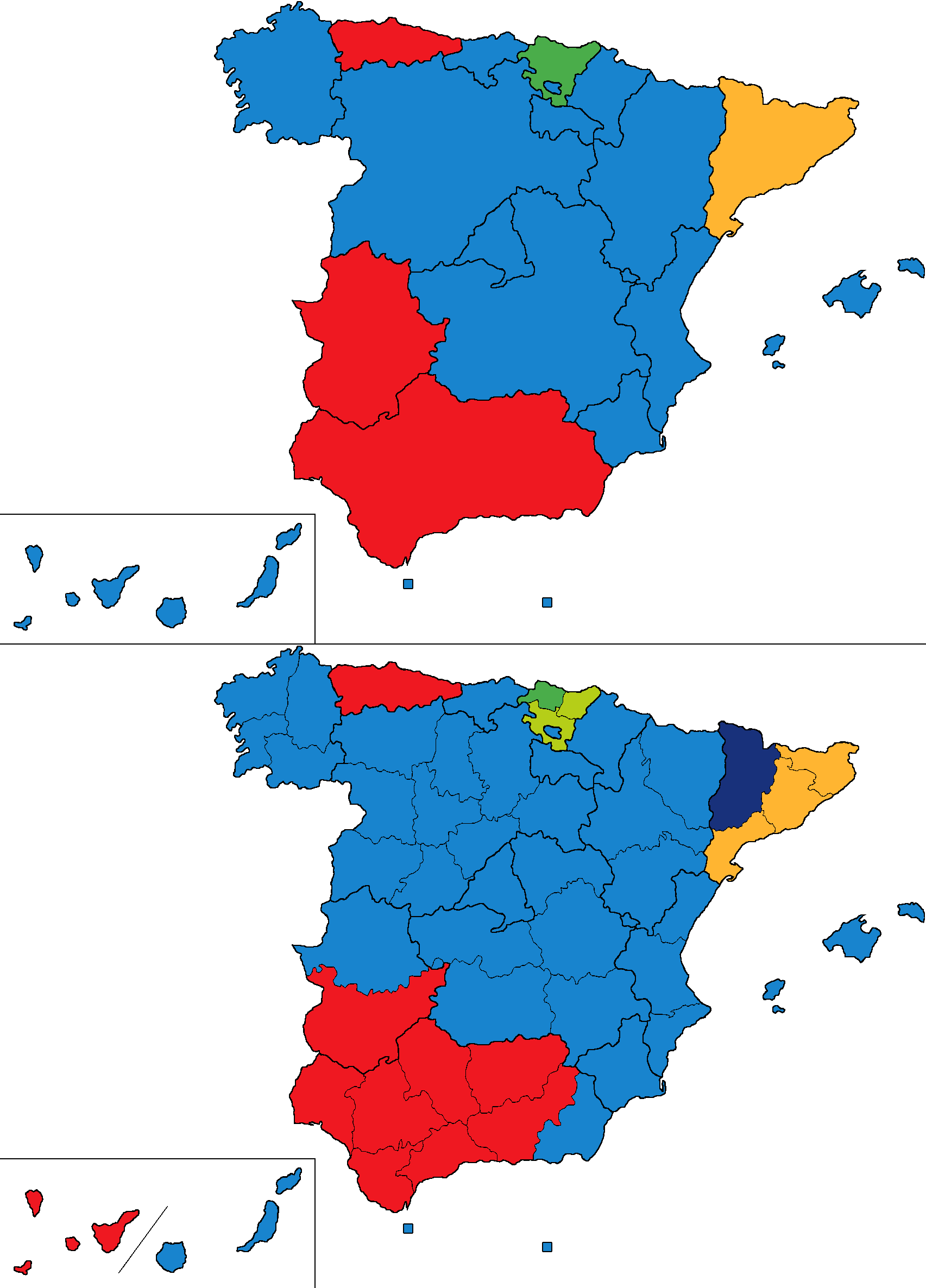 Spain election map results European Parliament election, 2014 (Spain)